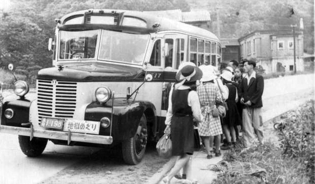 Classic bus in Beppu, Ōita.